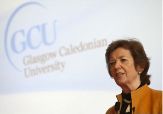 Mary Robinson delivering the Magusson Fellowship Lecture at Glasgow Caledonian University, 2011